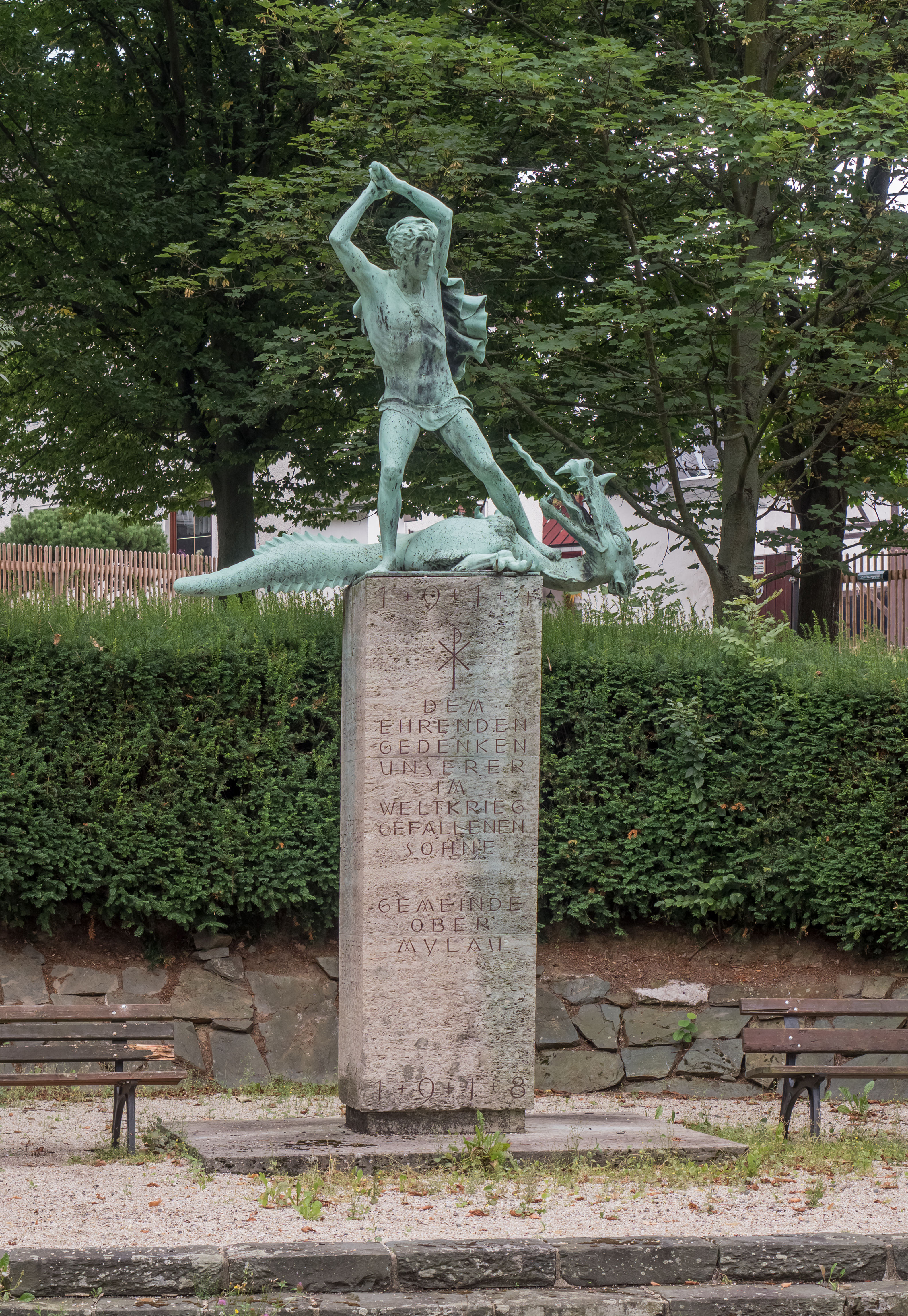 War memorial in Obermylau